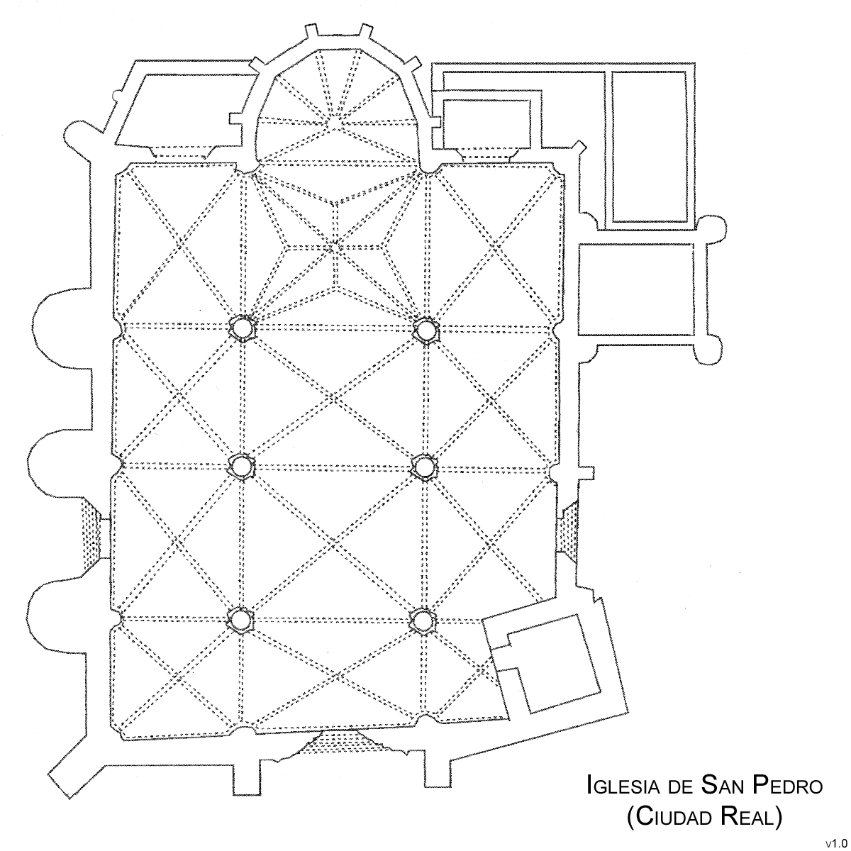 Floor plan of San Pedro Church (Ciudad Real, Spain)